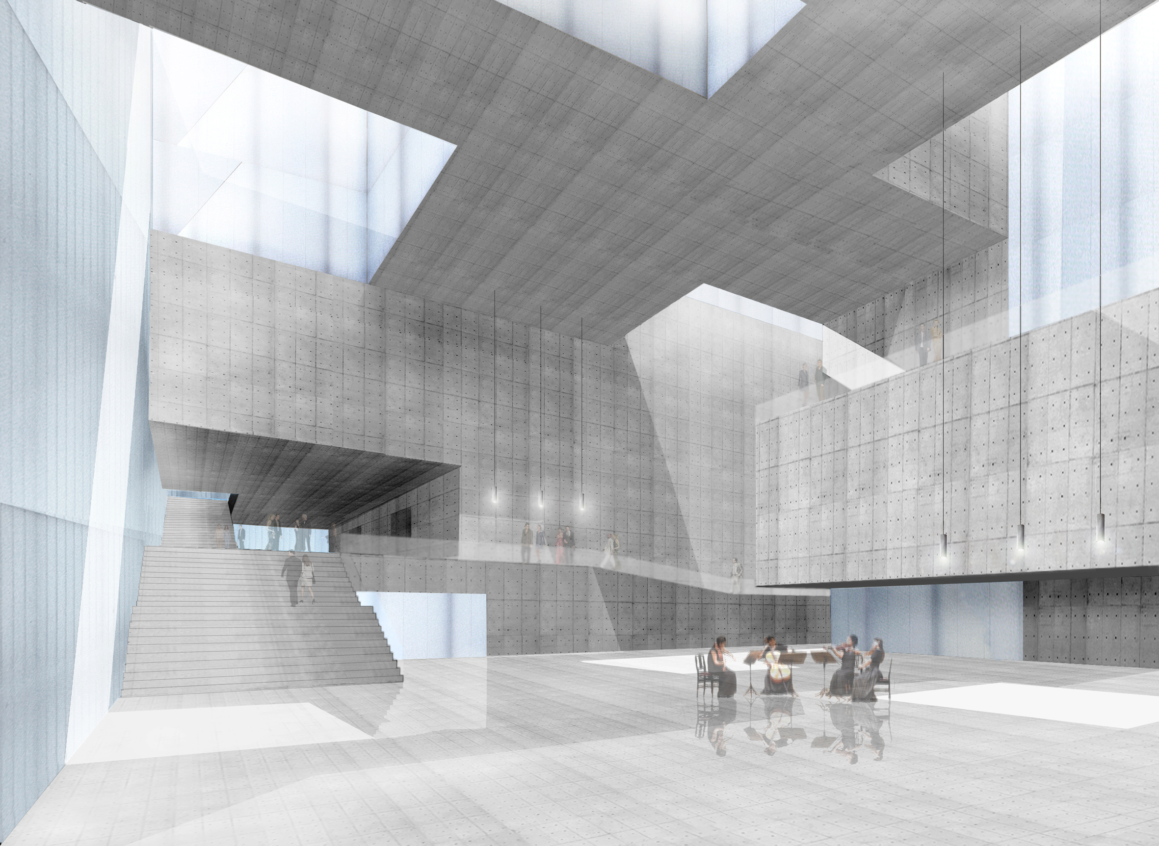 Model of the Szczecin Philharmony interior